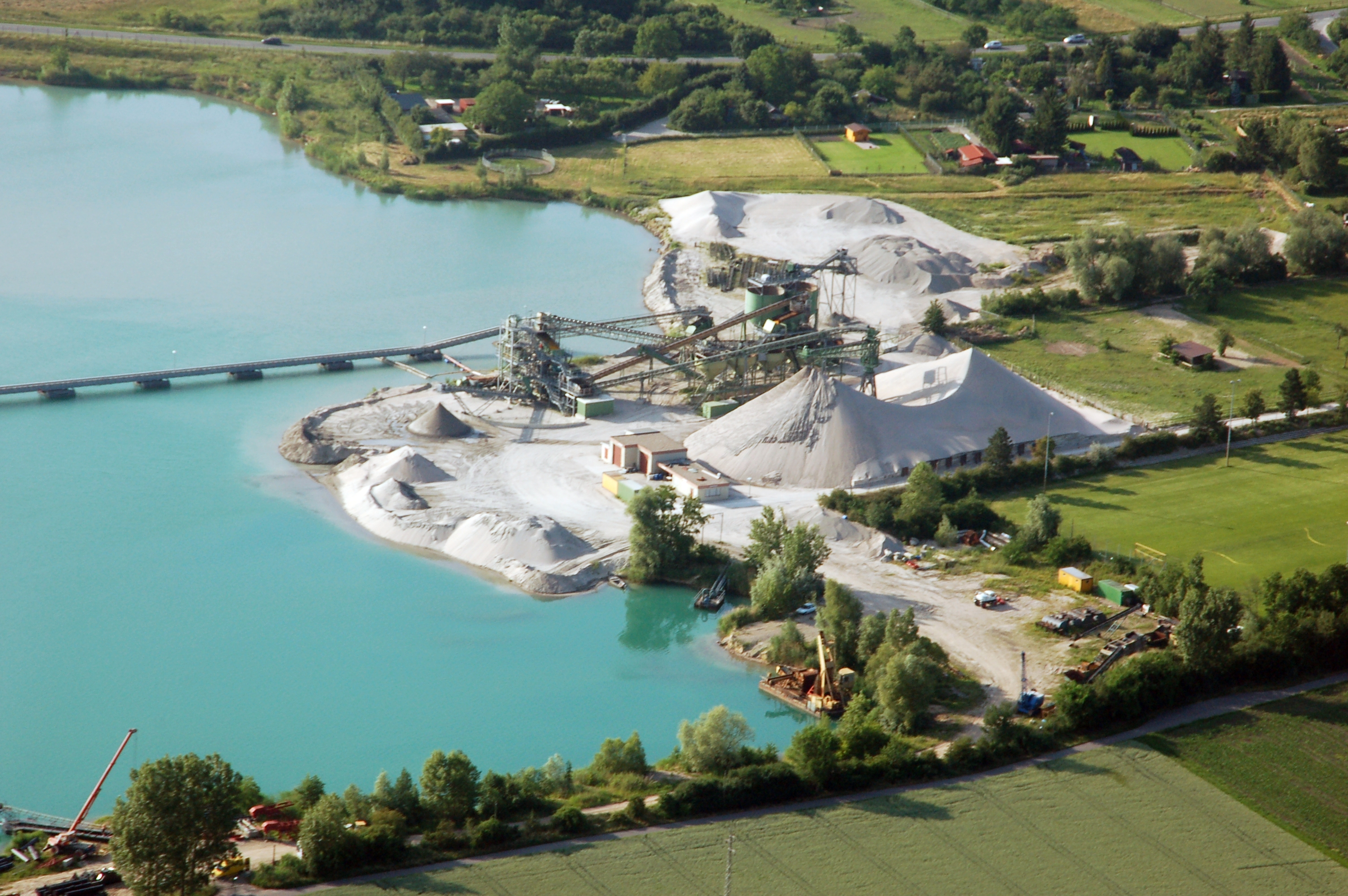 Aerial photograph of Geinsheim, Trebur, Hesse, Germany